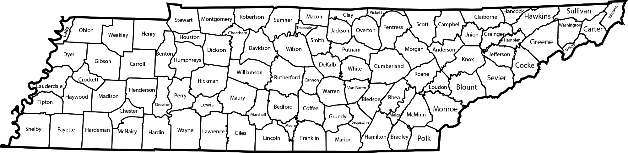 A map of Tennessee with all of its counties labeled.